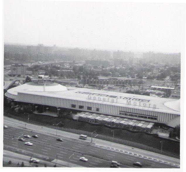 1964 New York World's Fair